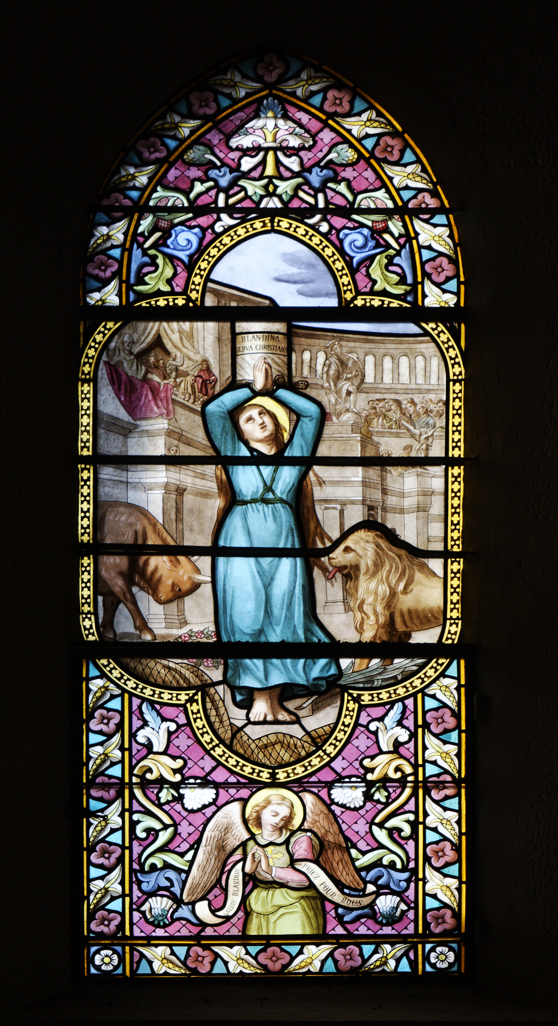 Martyrdom of Saint Blandina, stained glass window by Alexandre Mauvernay.